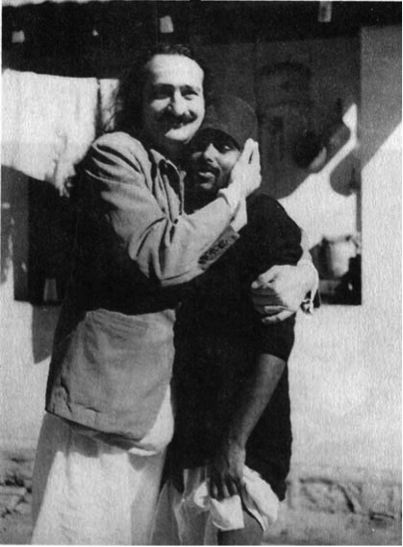 Meher Baba with a mast named Shariat Khan in the Bangalore Mast Ashram